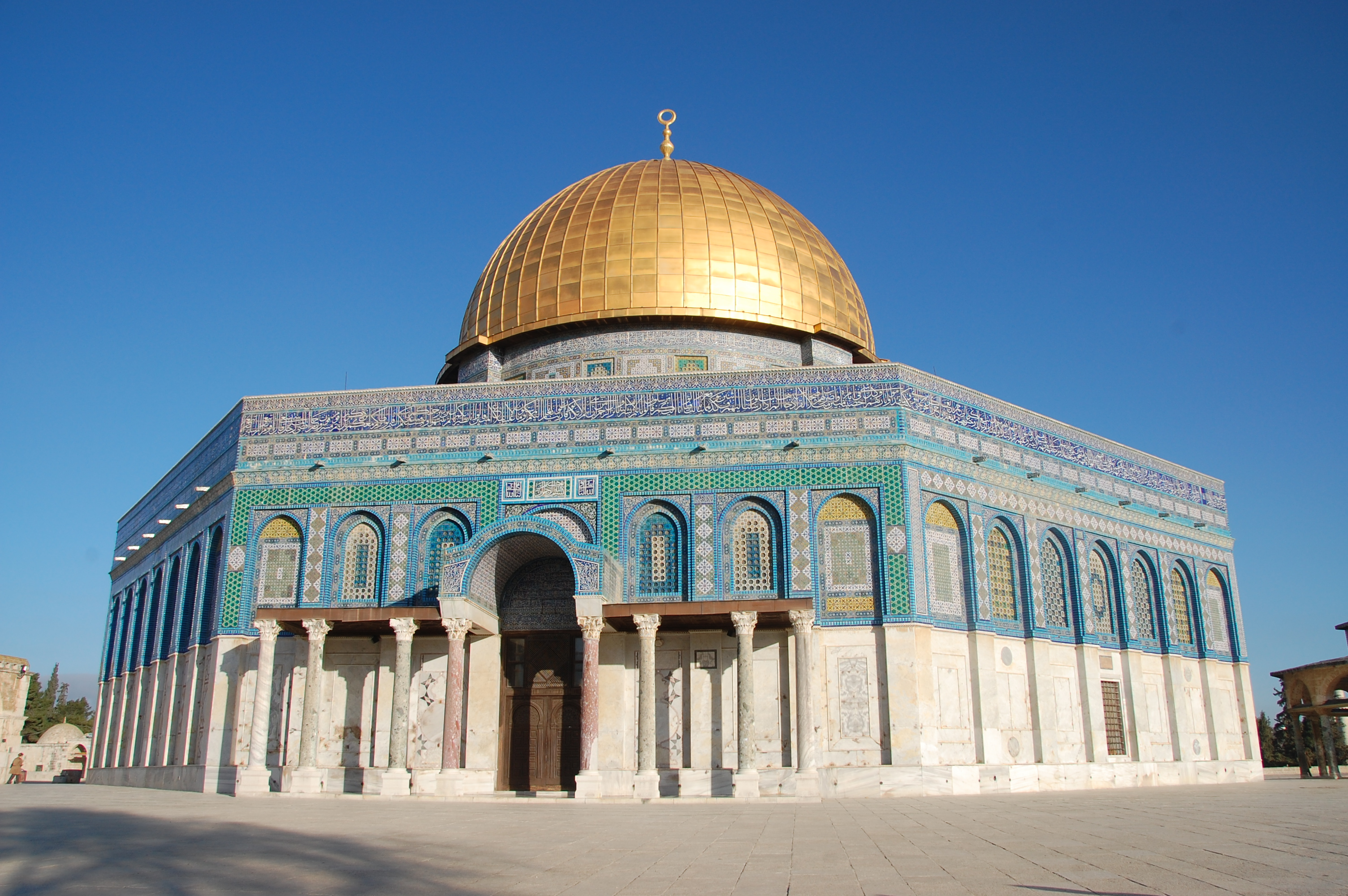 The Dome of The Rock Mosque, in the temple mount.